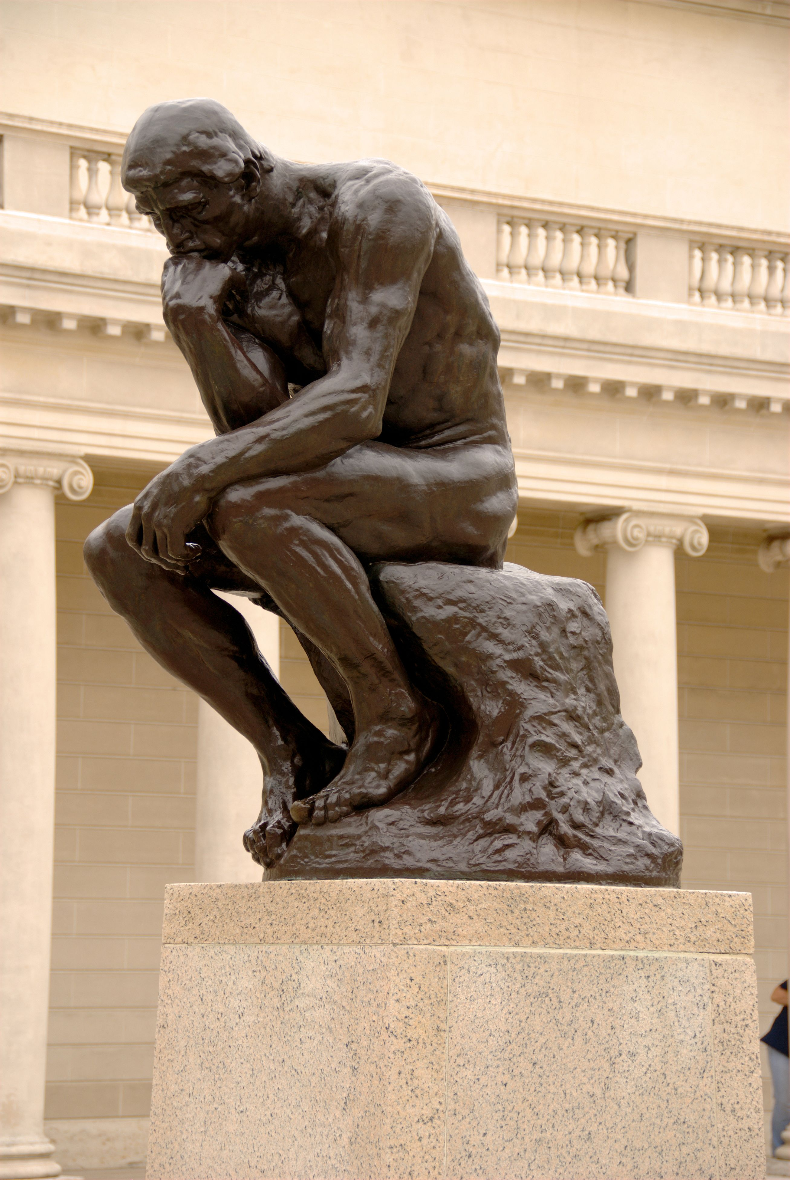 The Thinker, by Auguste Rodin, at the California Palace of the Legion of Honor